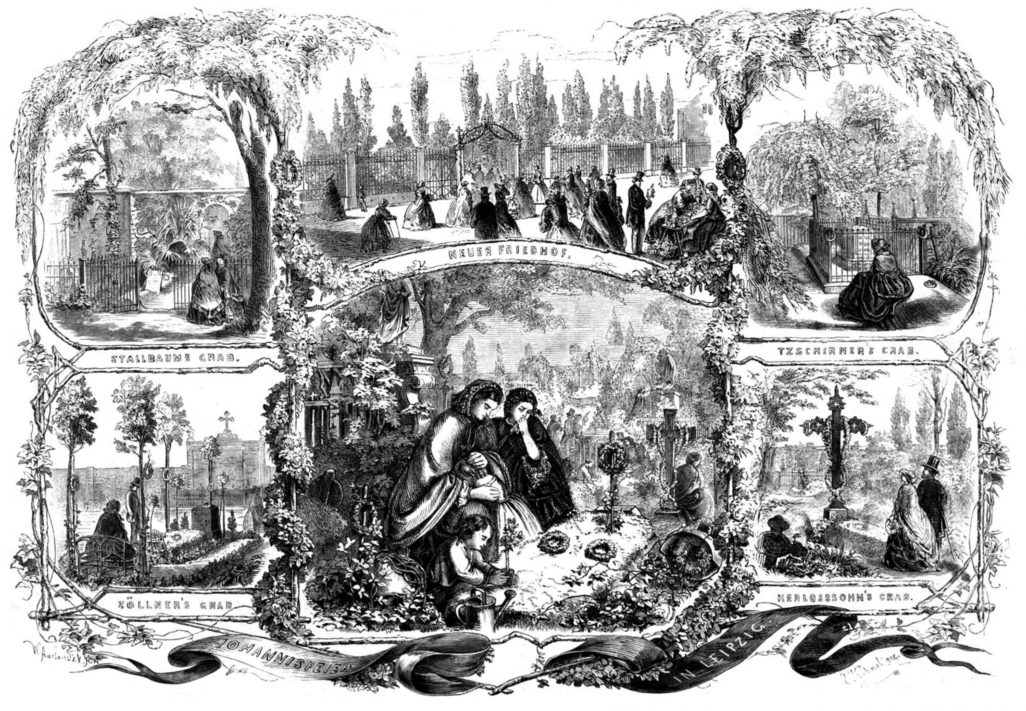 caption: "NEUER FRIEDHOF. STALLBAUM’S GRAB. TZSCHIRNER’S GRAB. ZÖLLNER’S GRAB. HERLOSSSOHN’S GRAB. JOHANNISFEIER IN LEIPZIG."